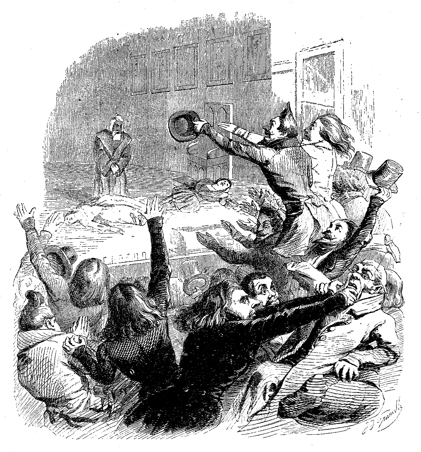 The Battle of HernaniHernani, the drama by French Romantic author Victor Hugo, best remembered today for the demonstrations which accompanied the premiere, that opened in Paris on 25 February 1830.